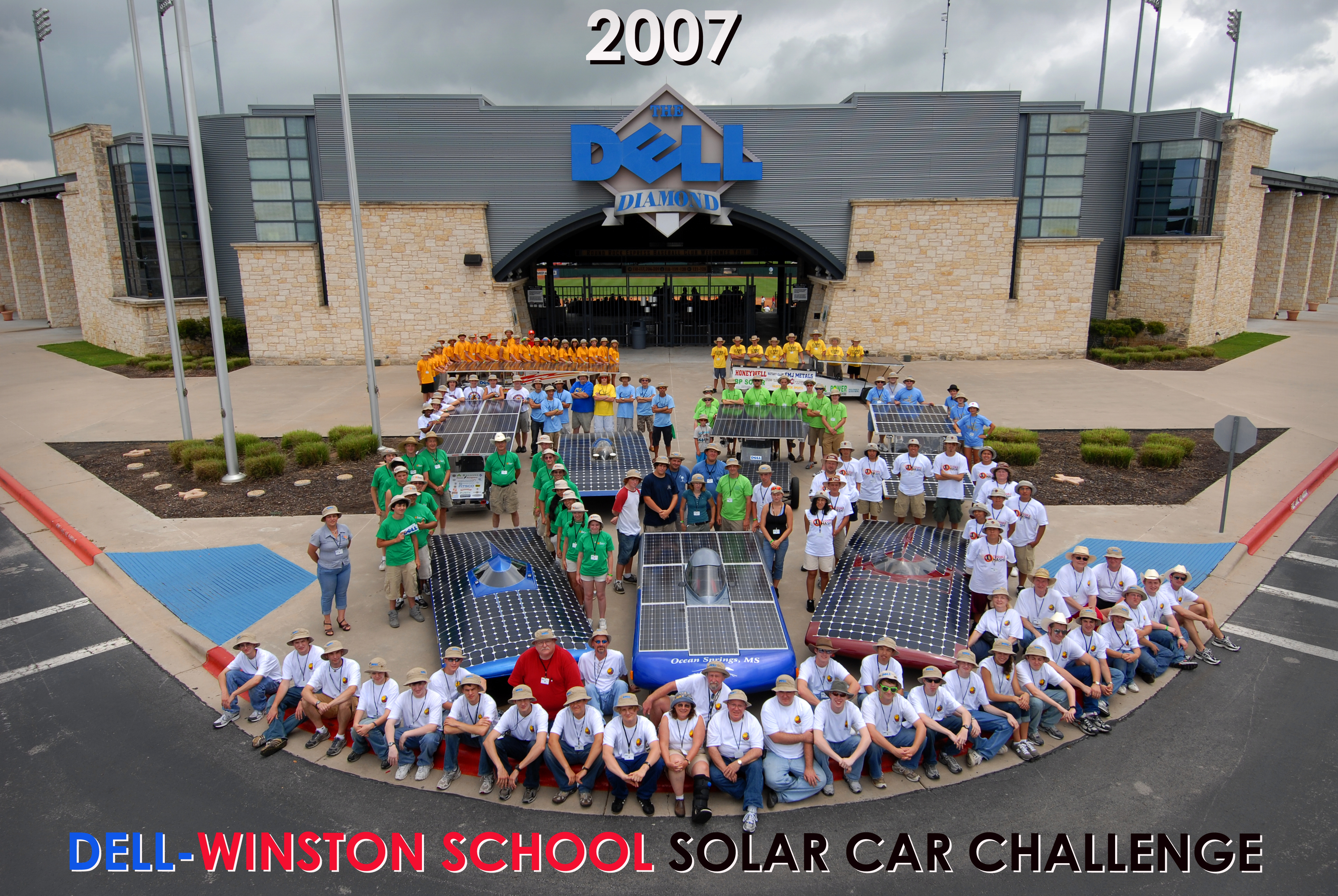 Promo picture from the 2007 Dell-Winston Solar Car Challenge. Free for use from the medai kit for event promotion.